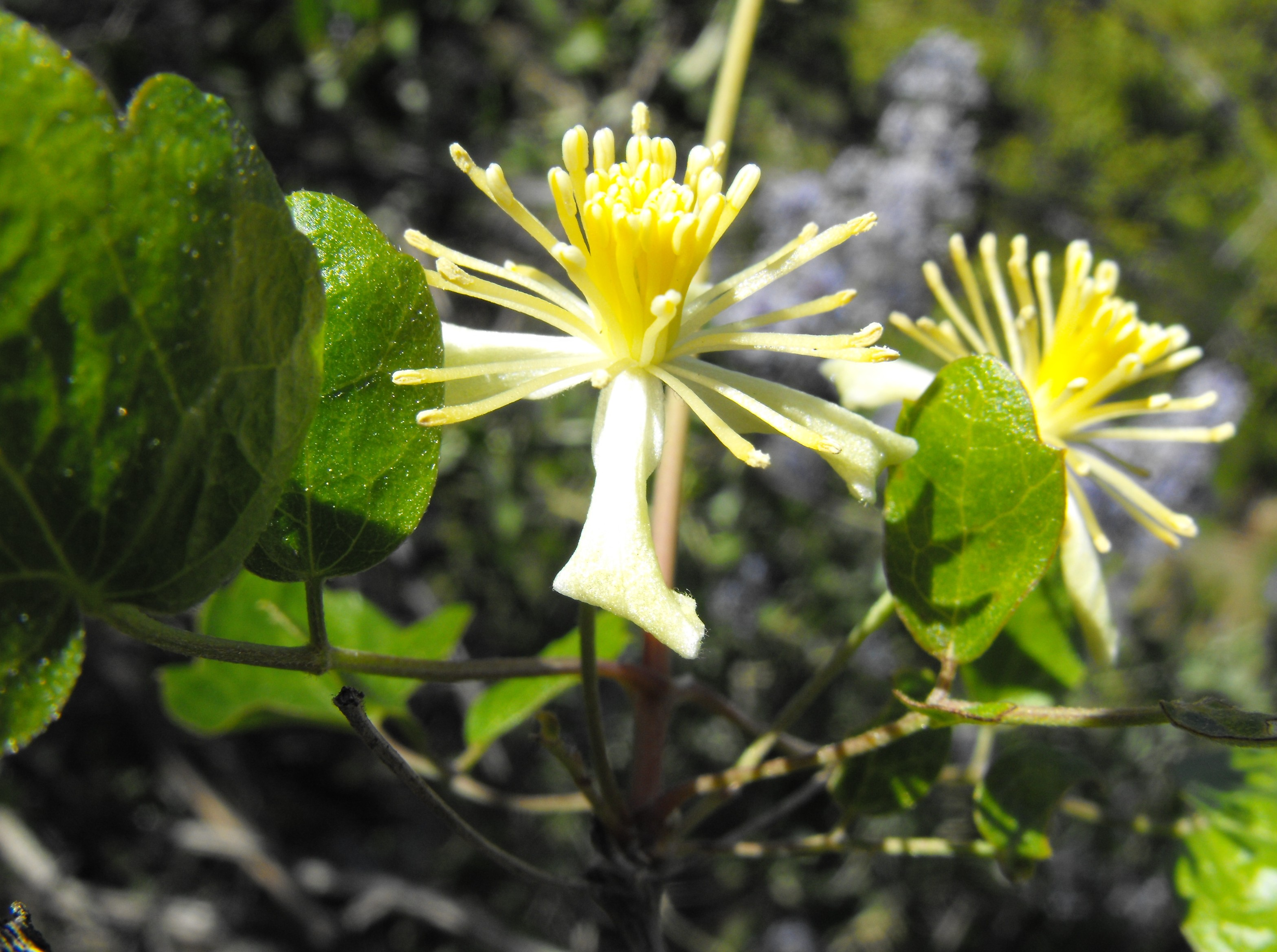 Clematis pauciflora at Loveland Reservoir outside Alpine, California, USA.